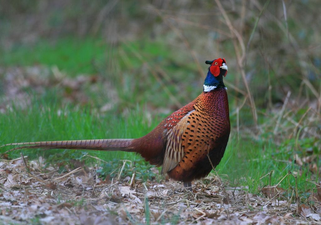 A male Common Pheasant in the Netherlands.